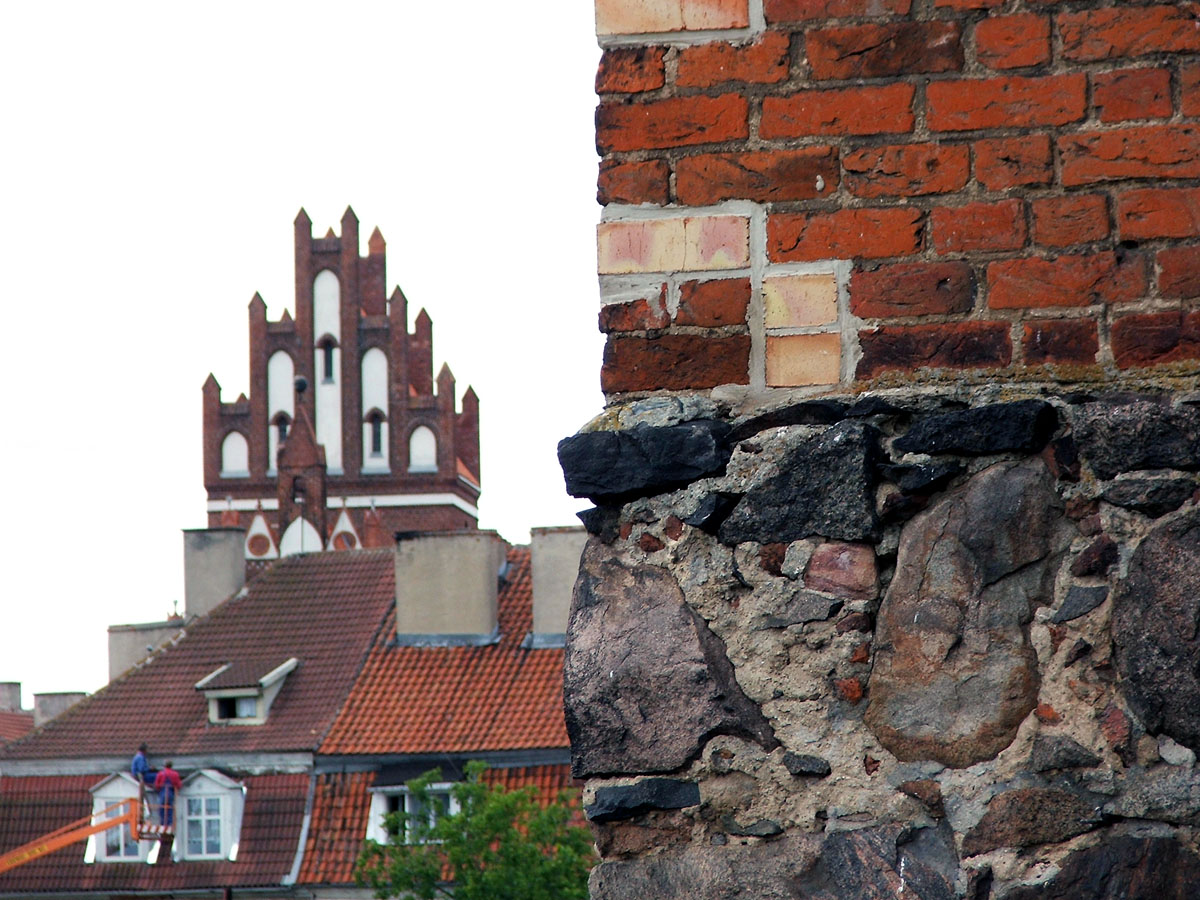 Gniew, Poland, castle and old town.